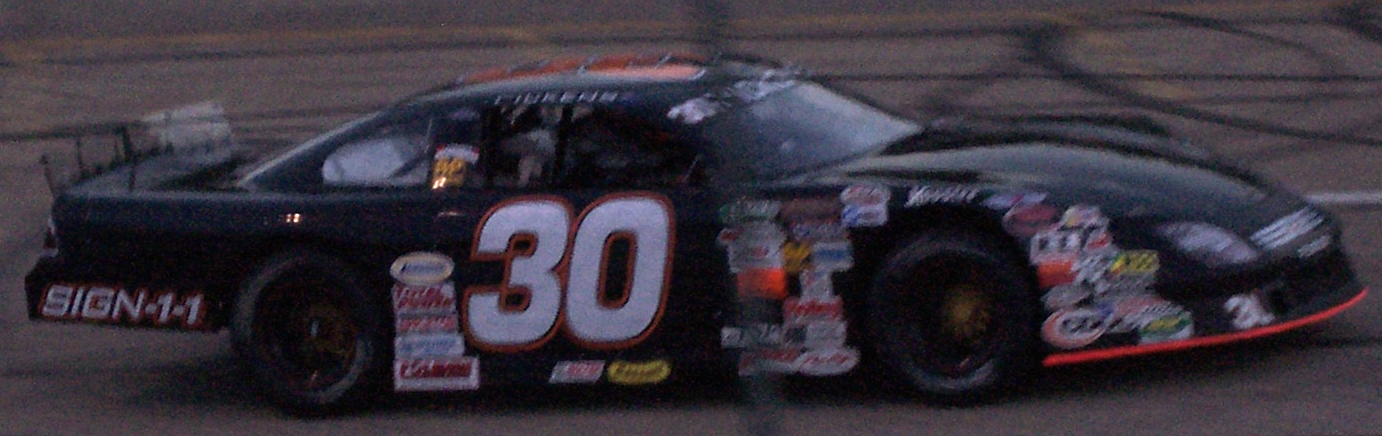 New Zealand racecar driver Michael Pickens racing in his ASA Late Model Series late model at Madison International Speedway.